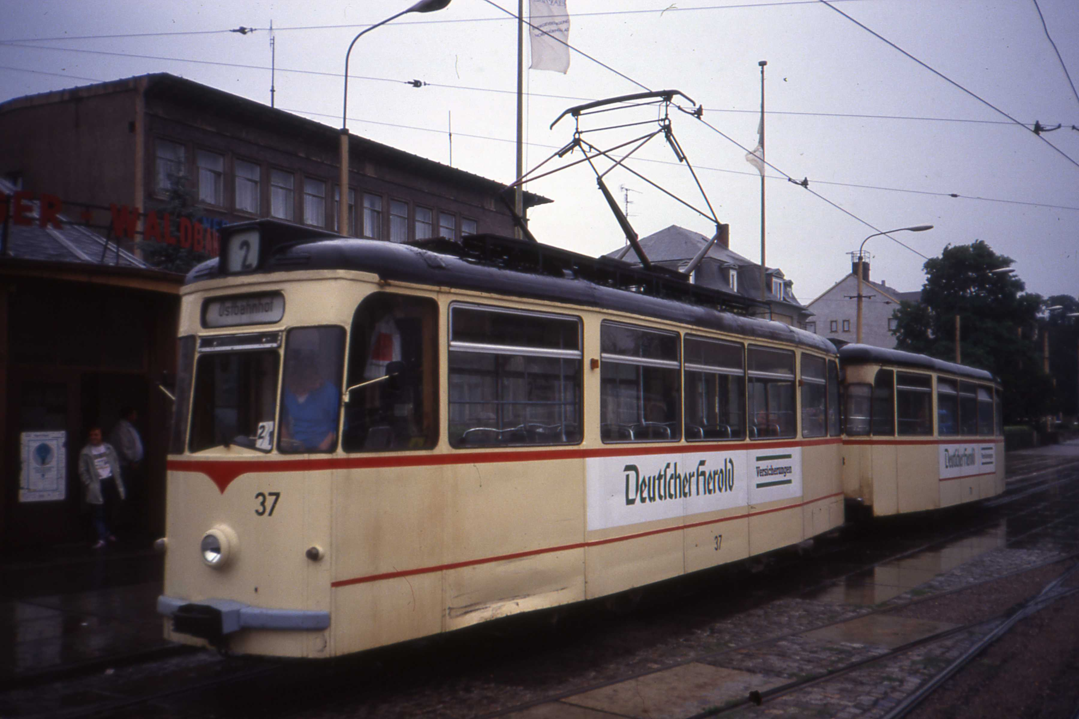 Czechoslovak made Gotha type T2D tram with Gotha trailer (either 93 or 98) at Hauptbahnhof, Gotha on the route to the Ostbahnhof, both trailer and motor car bearing advertising for Deutscher Herold insurance.